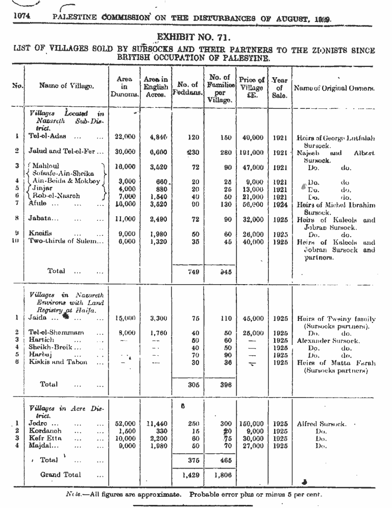 Table of Sursock sales to Zionist organisations in Mandatory Palestine